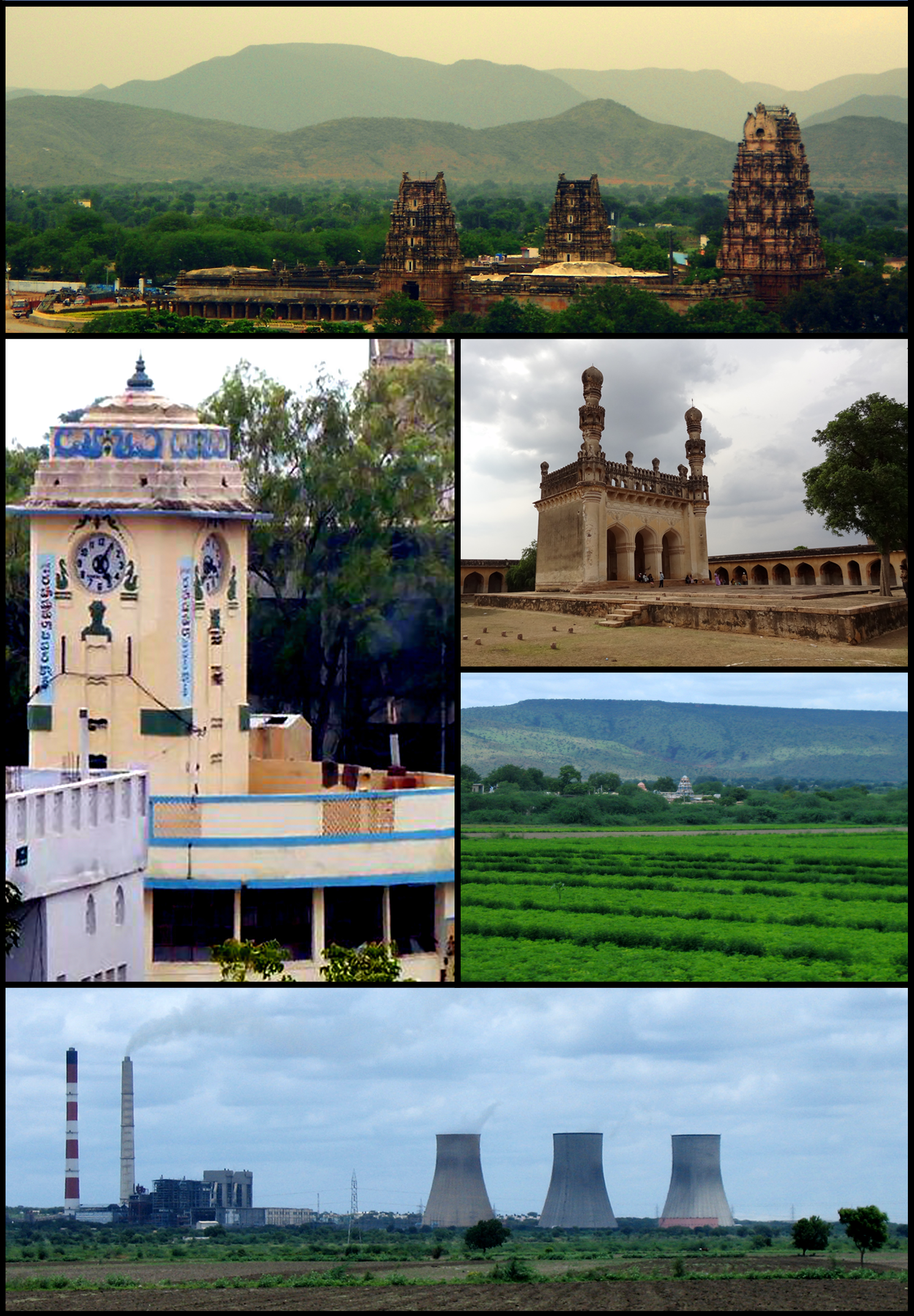 Montage of YSR Kadapa District with Images from wikimedia commons